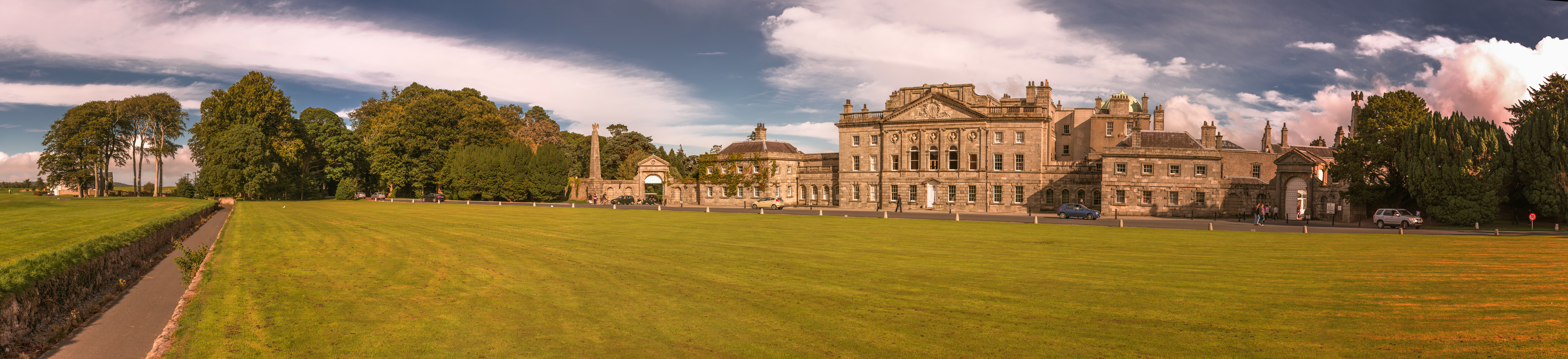 Powerscourt, Ireland 2012